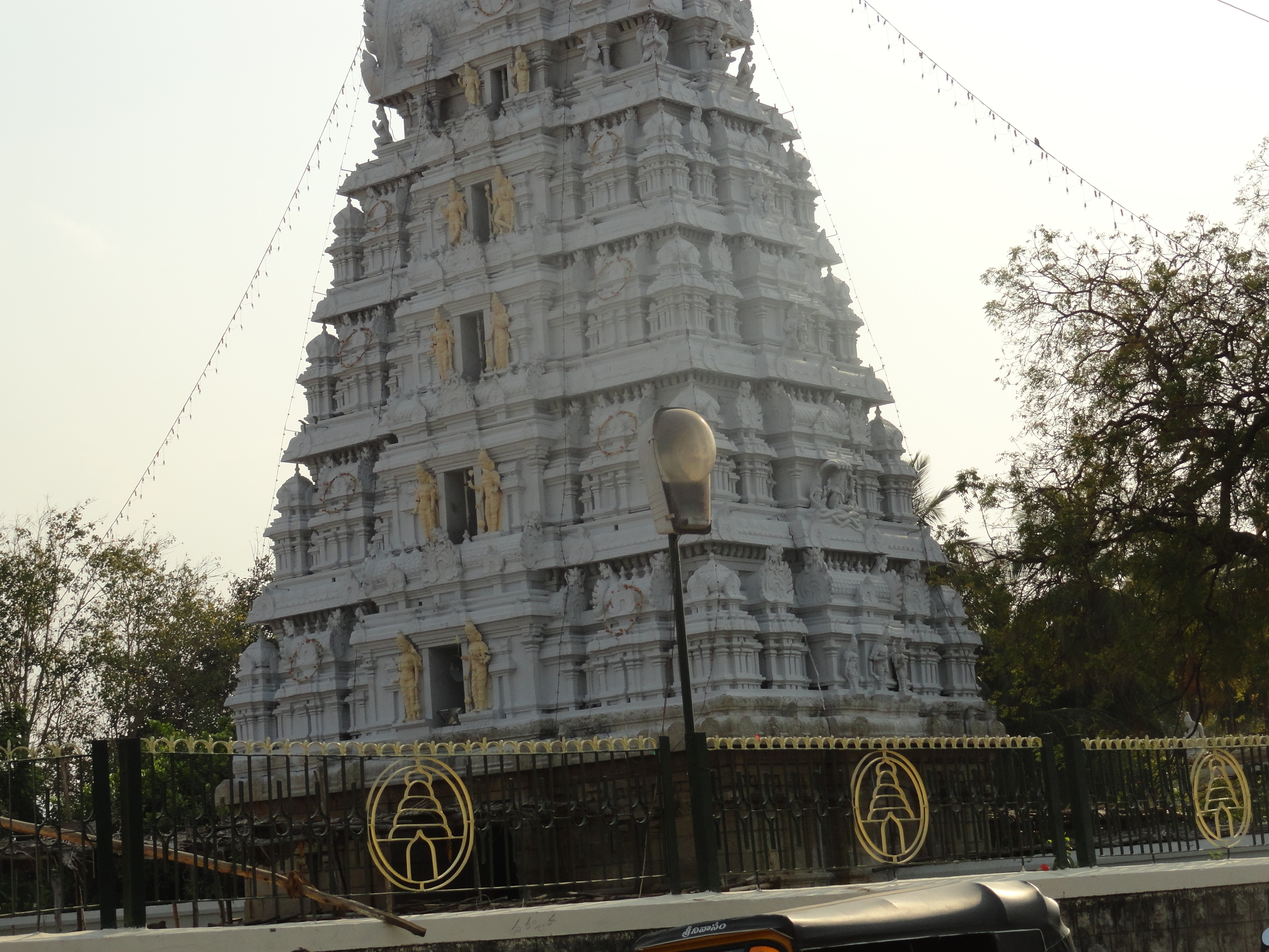 gopuram of kalyana Srivenkateswara temple